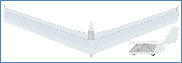 Bright Star Gliders Swift